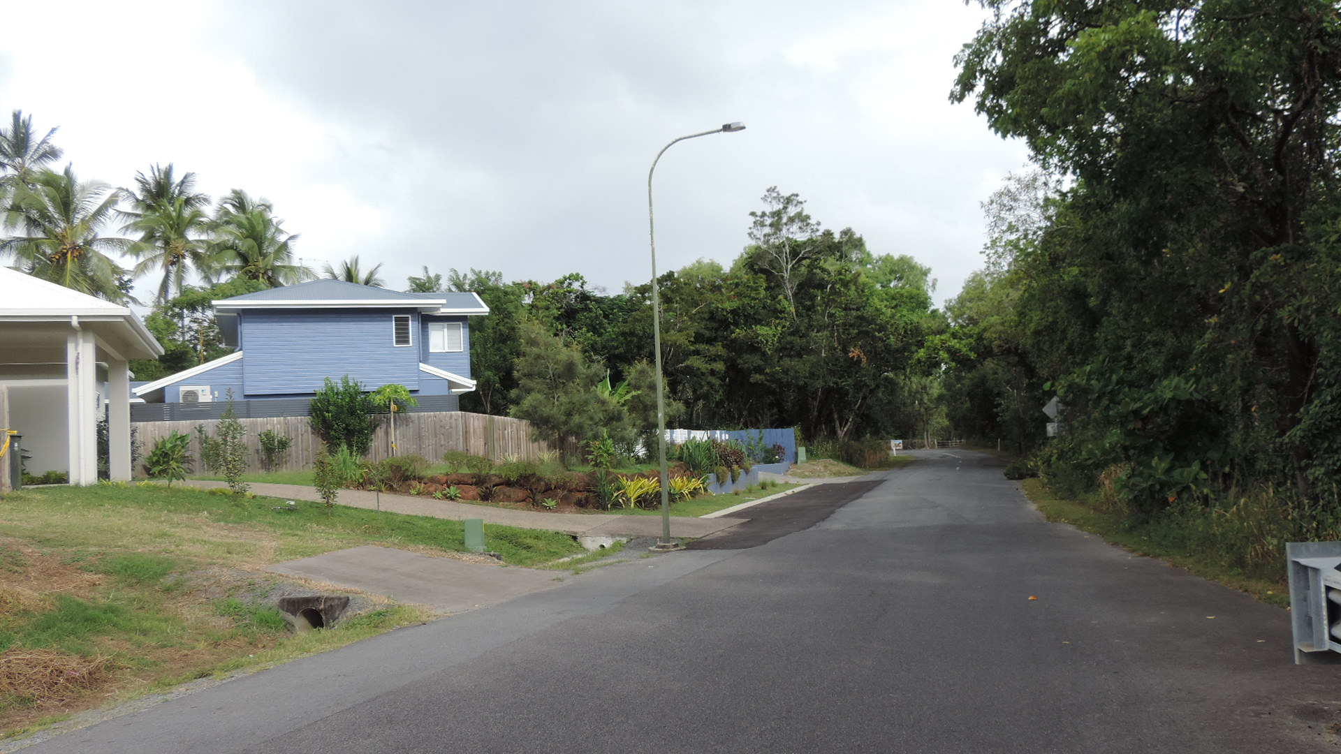 Looking from Anton Gundy Bridge south-east along Marshall Street, Machans Beach, 2018